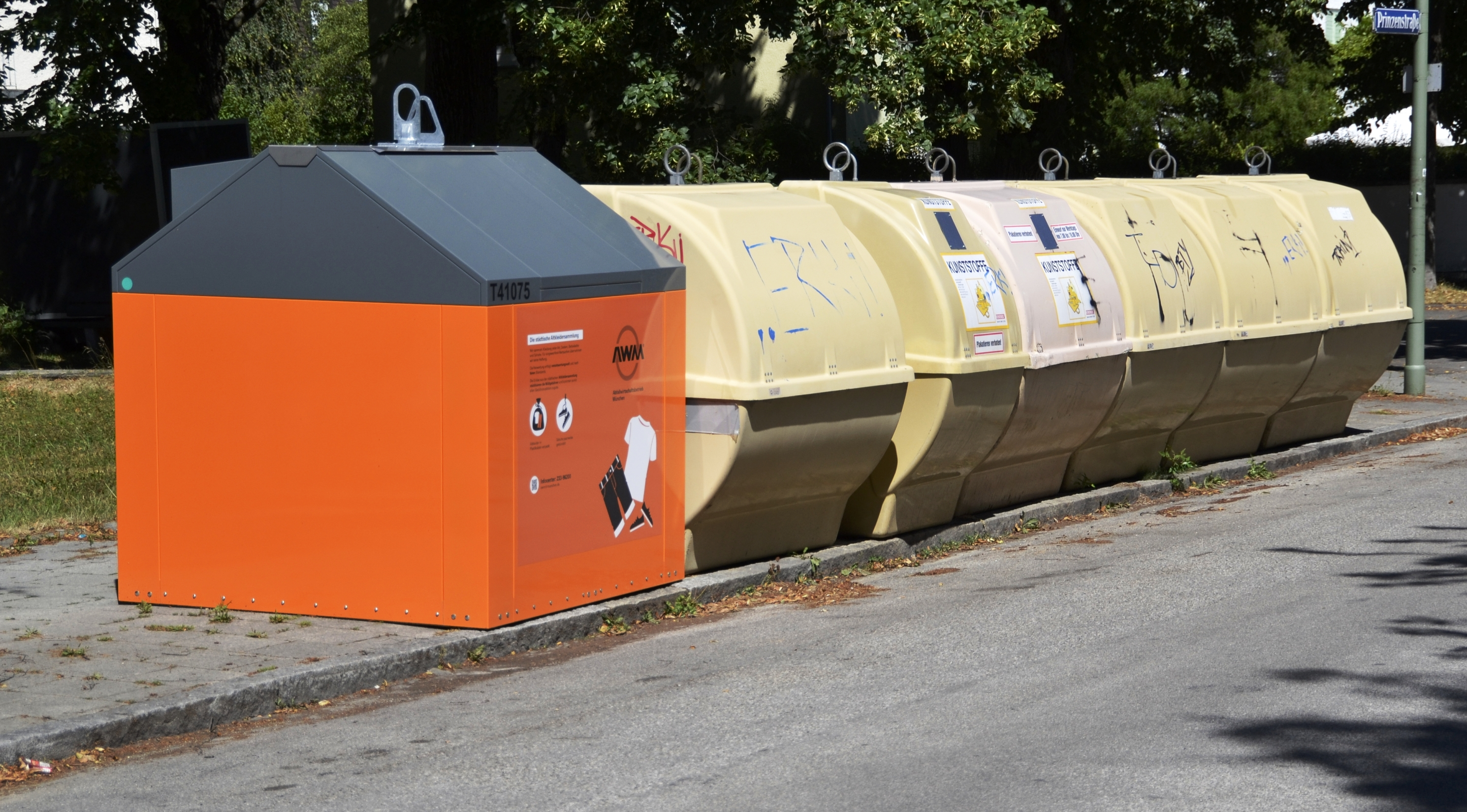 Glass recycling in Munich, Germany.